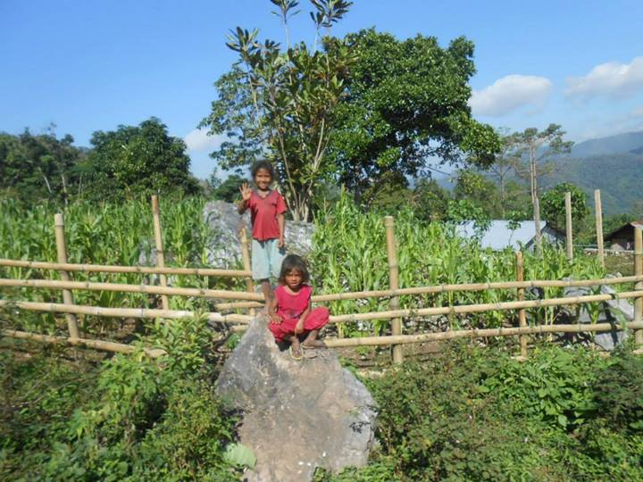 Maize field in Soibada, East Timor